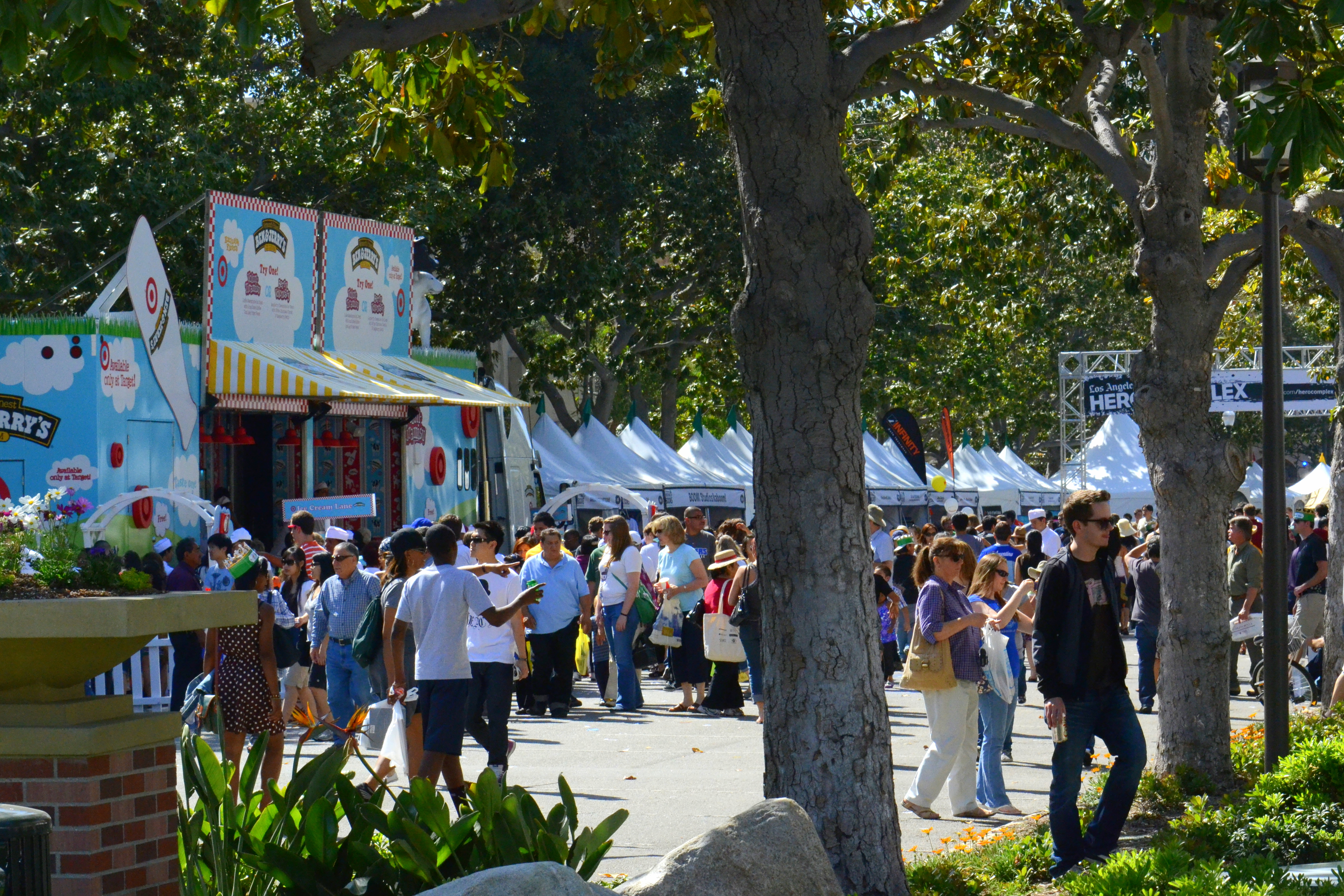 Ben and Jerry's ice cream stand on the USC campus. 4/30/2011 Festival of Books at USC.